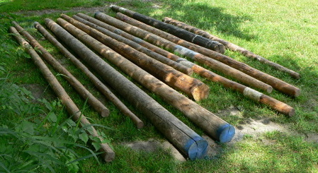 A selection of cabers of various lengths and weight as seen at the 2005 Bellingham Highland Games.